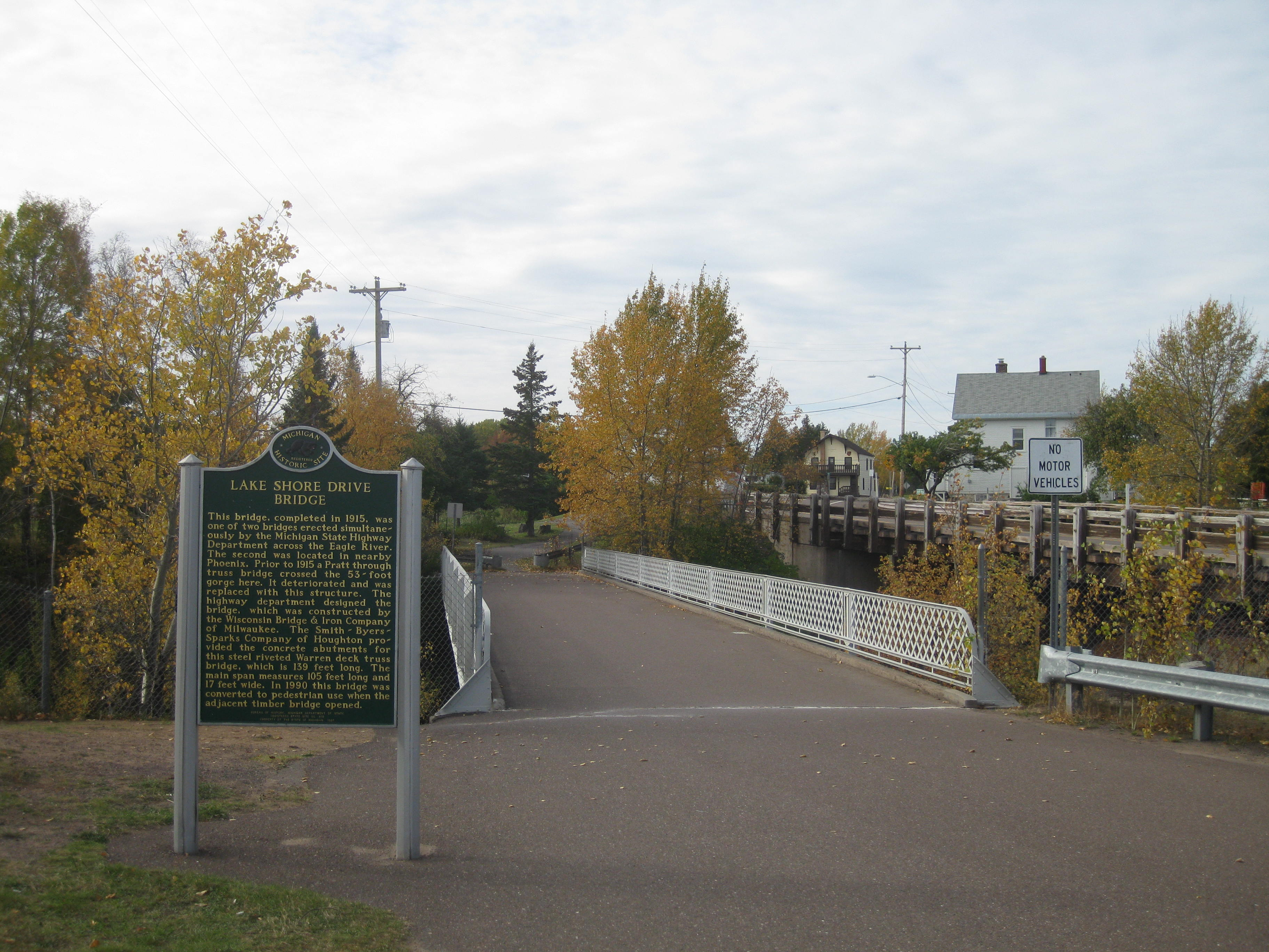 Looking along the length of the Lake Shore Drive Bridge in Eagle River, Michigan. The MSHS marker is at the left and the Eagle River Timber Bridge is alongside at right.